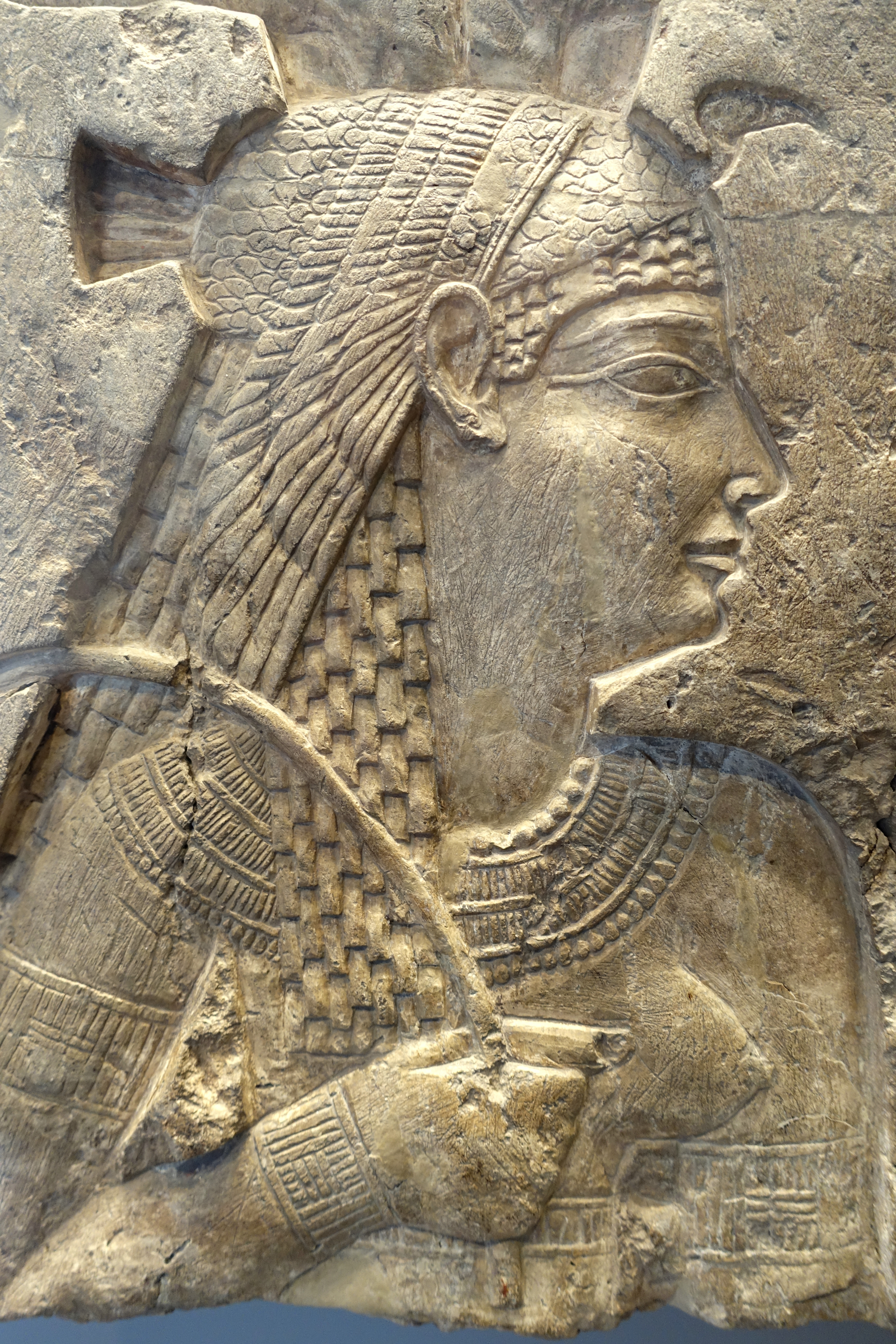 Exhibit in the Arthur M. Sackler Museum, Harvard University, Cambridge, Massachusetts, USA. This artwork is in the public domain because the artist died more than 70 years ago.